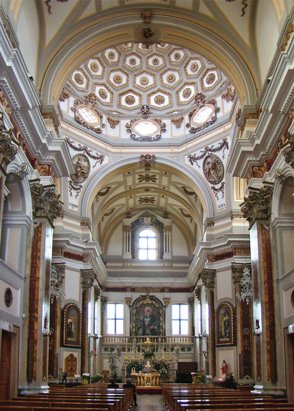 Church of the Carmine, Martina Franca, Apulia, Italy.